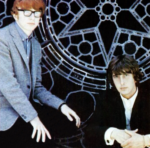 Trade ad for Peter and Gordon's single "Woman".To better adapt it to his respective Wikipedia article, the ad was cropped and cleaned in a graphics editing program. The original can be viewed at the source below.